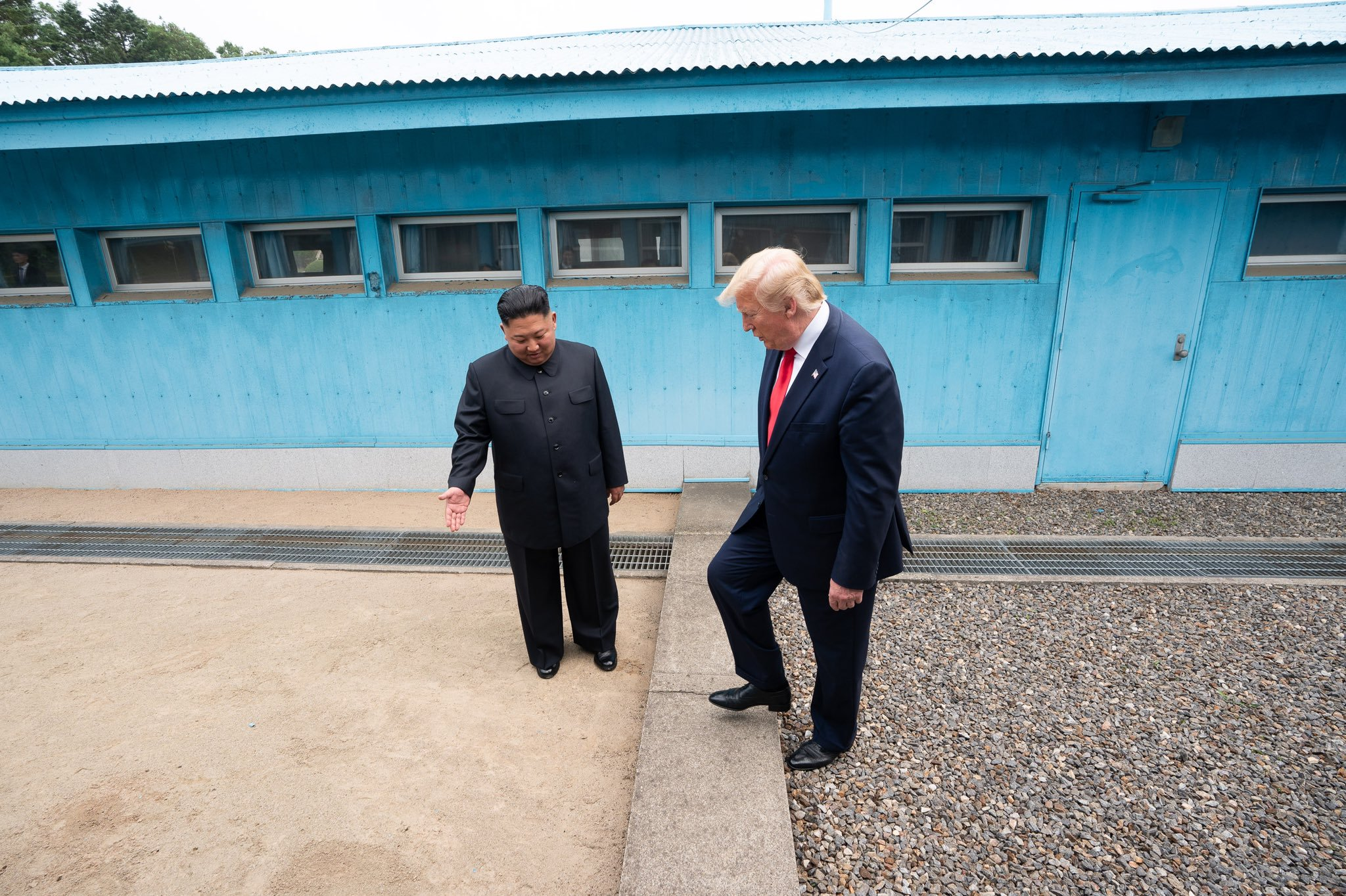 Donald Trump stepping into the territory of North Korea through the Joint Security Area, becoming the first sitting U.S. President to do so after the Korean War in 1953